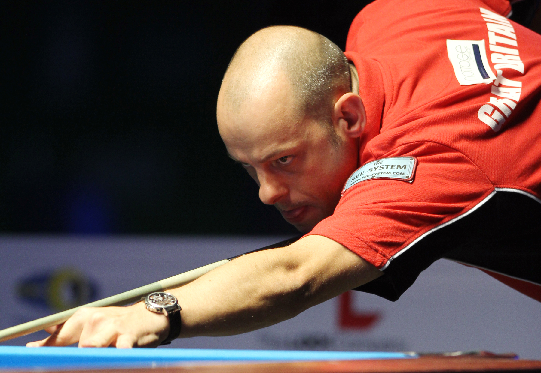 Britain's Darren Appleton in action during the World 9-Ball Pool Championship in Doha. Picture by Vinod Divakaran